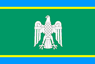 Flag of Chernivtsi Oblast, Ukraine